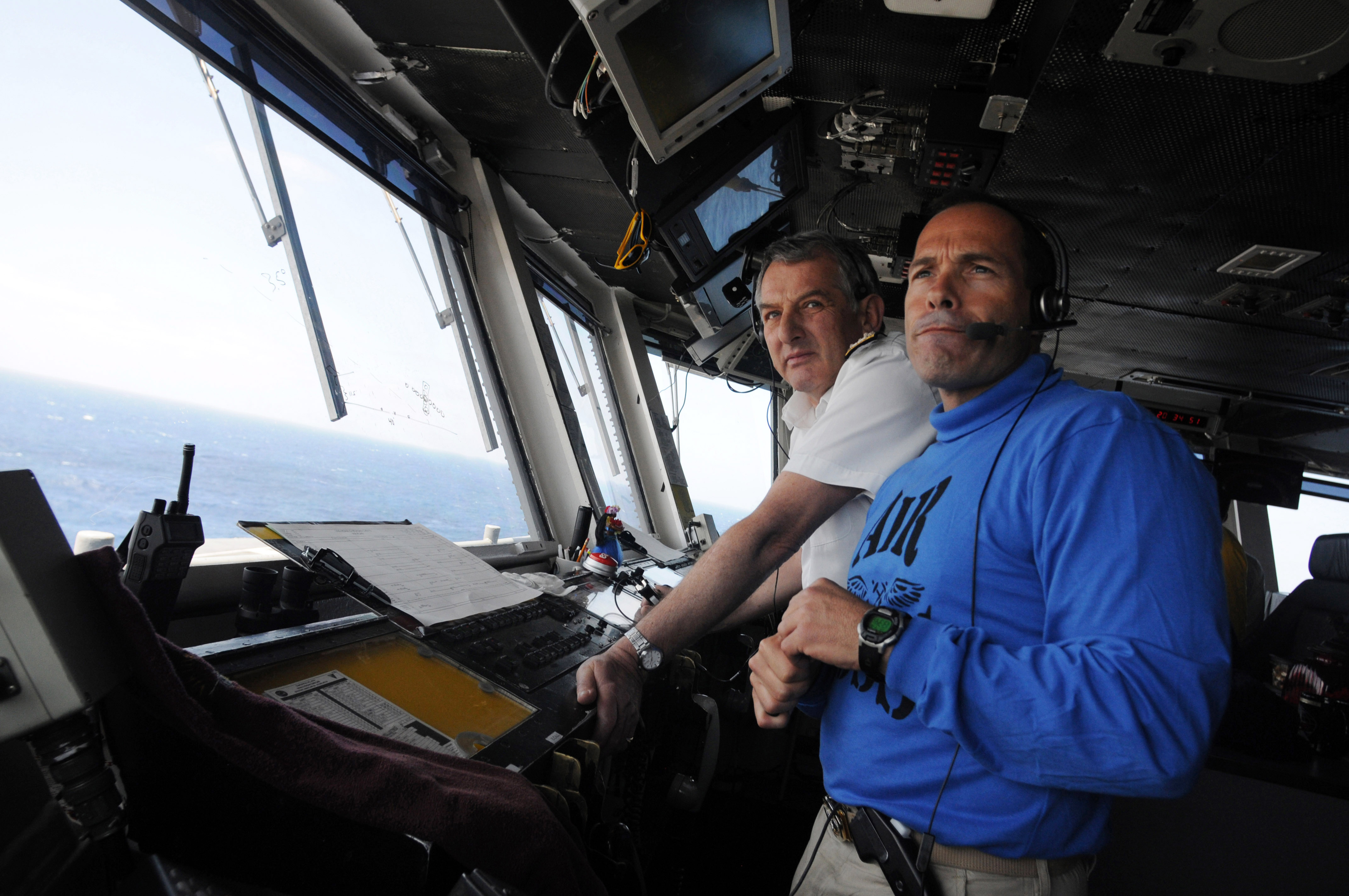 PACIFIC OCEAN (April 16, 2009) Capt. John Breast, air boss aboard the aircraft carrier USS Ronald Reagan (CVN-76), and Adm. Sir Jonathon Band, First Sea Lord and Chief of Naval Staff of the Royal Navy, observe flight operations from Primary Flight (Pri-fly) control. Band embarked aboard Ronald Reagan to experience being underway on a U.S. Navy aircraft carrier. Ronald Reagan is underway conducting Fleet Replacement Squadron Carrier Qualifications in the Pacific Ocean.